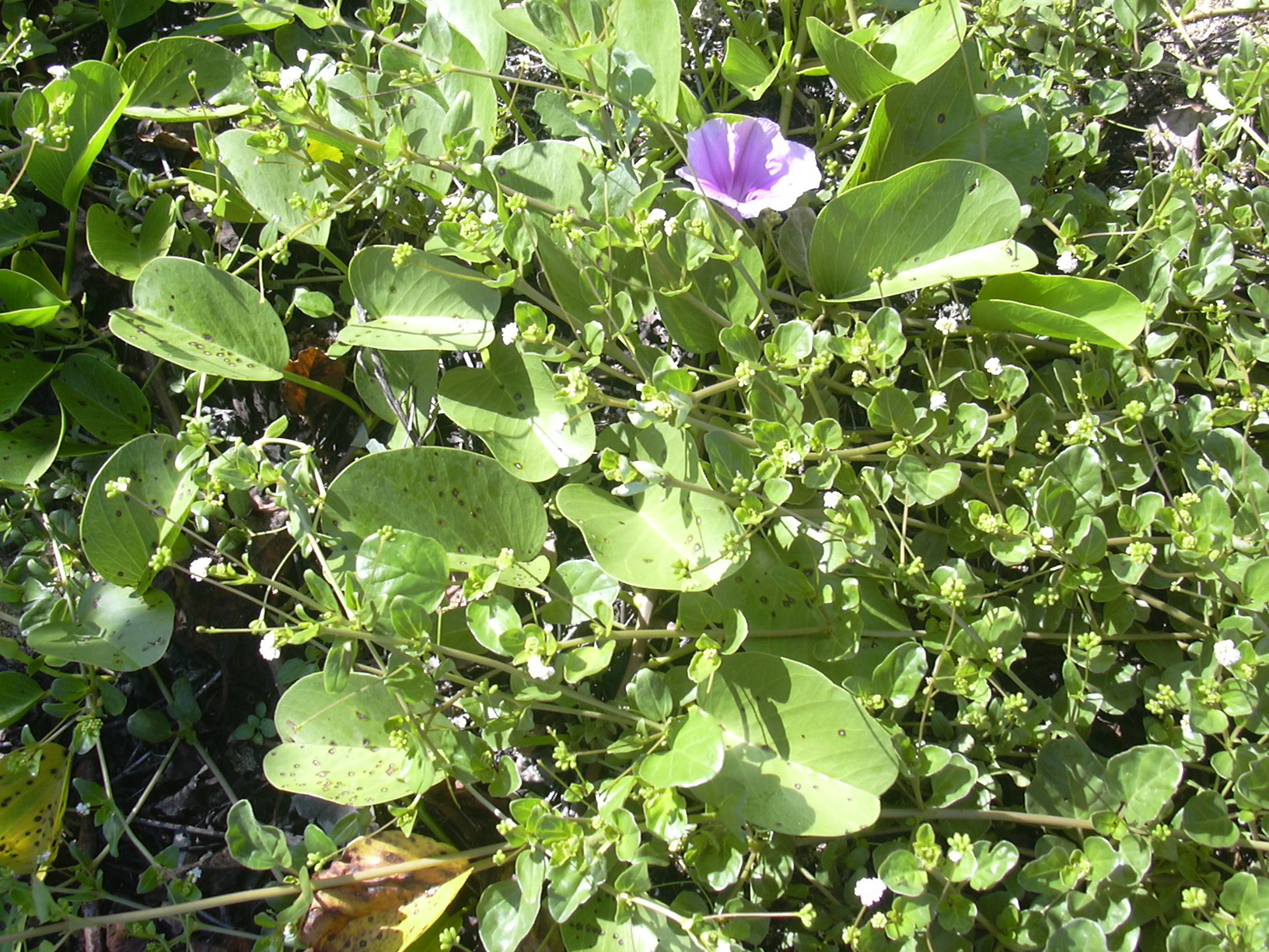 Boerhavia repens (habit). Location: Maui, Kanaha Beach